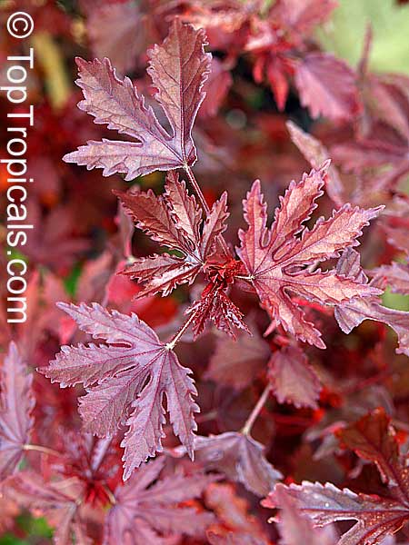 leaves of the cranberry hibiscus planet